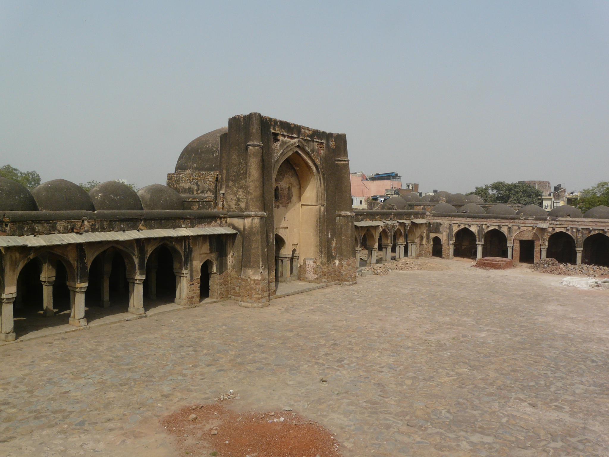 West and North pavilions of Begumpur Masjid